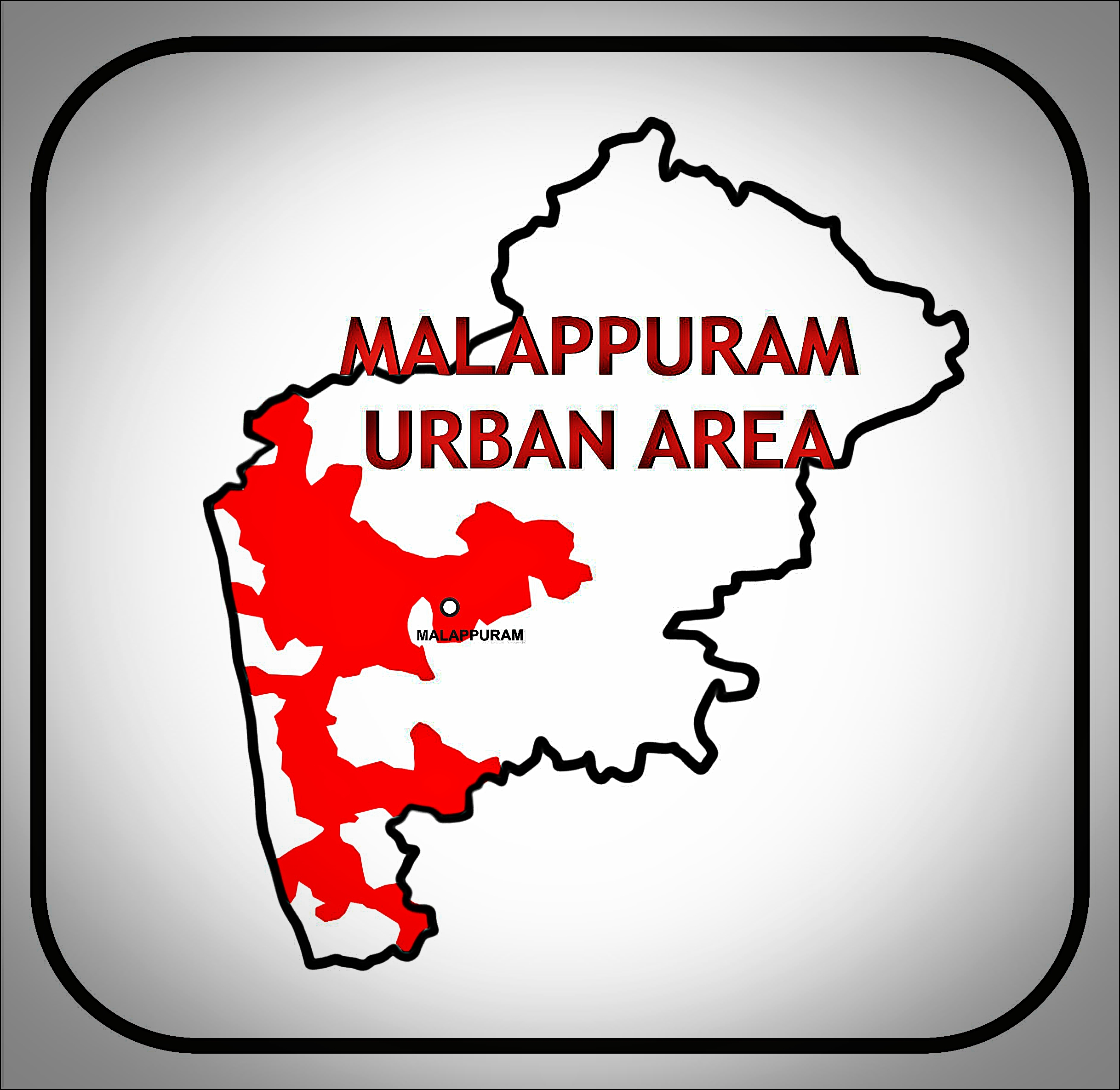 Black boundary depicts the district and red colored area depicts the Urban area in the district.